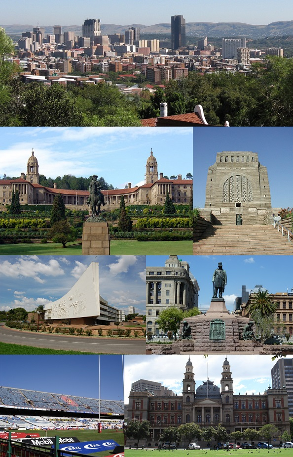 From top left clockwise:Pretoria CBD skyline, Front view of the Union Buildings, Voortrekker Monument, Administration Building of the University of Pretoria, Church Square, Loftus Versfeld Stadium, Palace of Justice Other information The montage consists of the following images: File:Pretoria CBD1.jpg by user:Petrus File:Uniegebou.jpg by user:Davinci77 File:Voortrekker Monument.jpg by user:FritzG File:Die skip University of pretoria.JPG by User:Mike-Prins File:Krugerstandbeeld, Kerkplein, b, Pretoria.jpg by User:JMK File:Loftus-Stadion.JPG by Zakysant at de.wikipedia File:Palace of Justice, Church Square, pretoria.JPG by User:Cvanrooyen